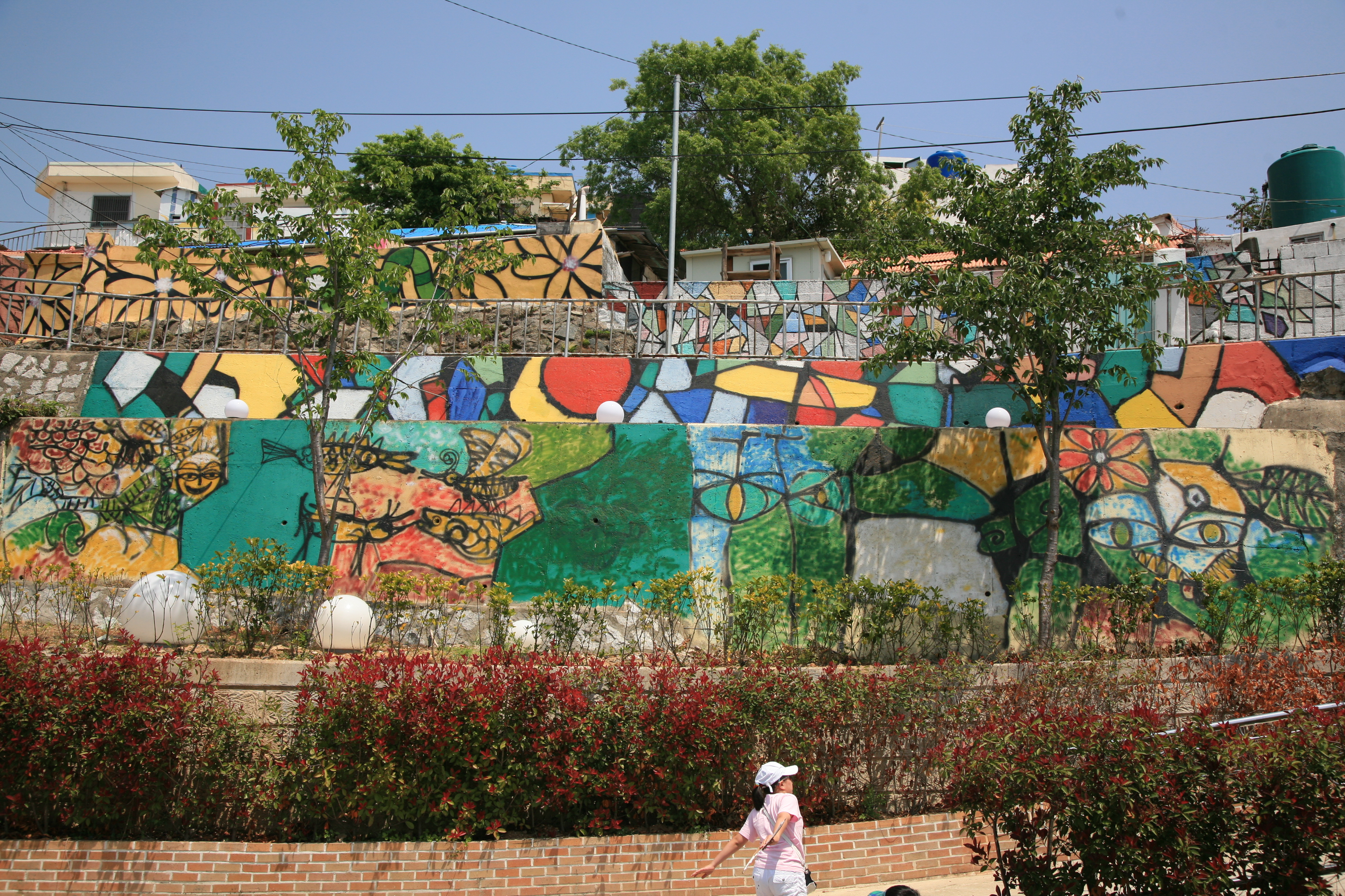 A view of Dongpirang Village in Tongyeong, South Gyeongsang province, South Korea